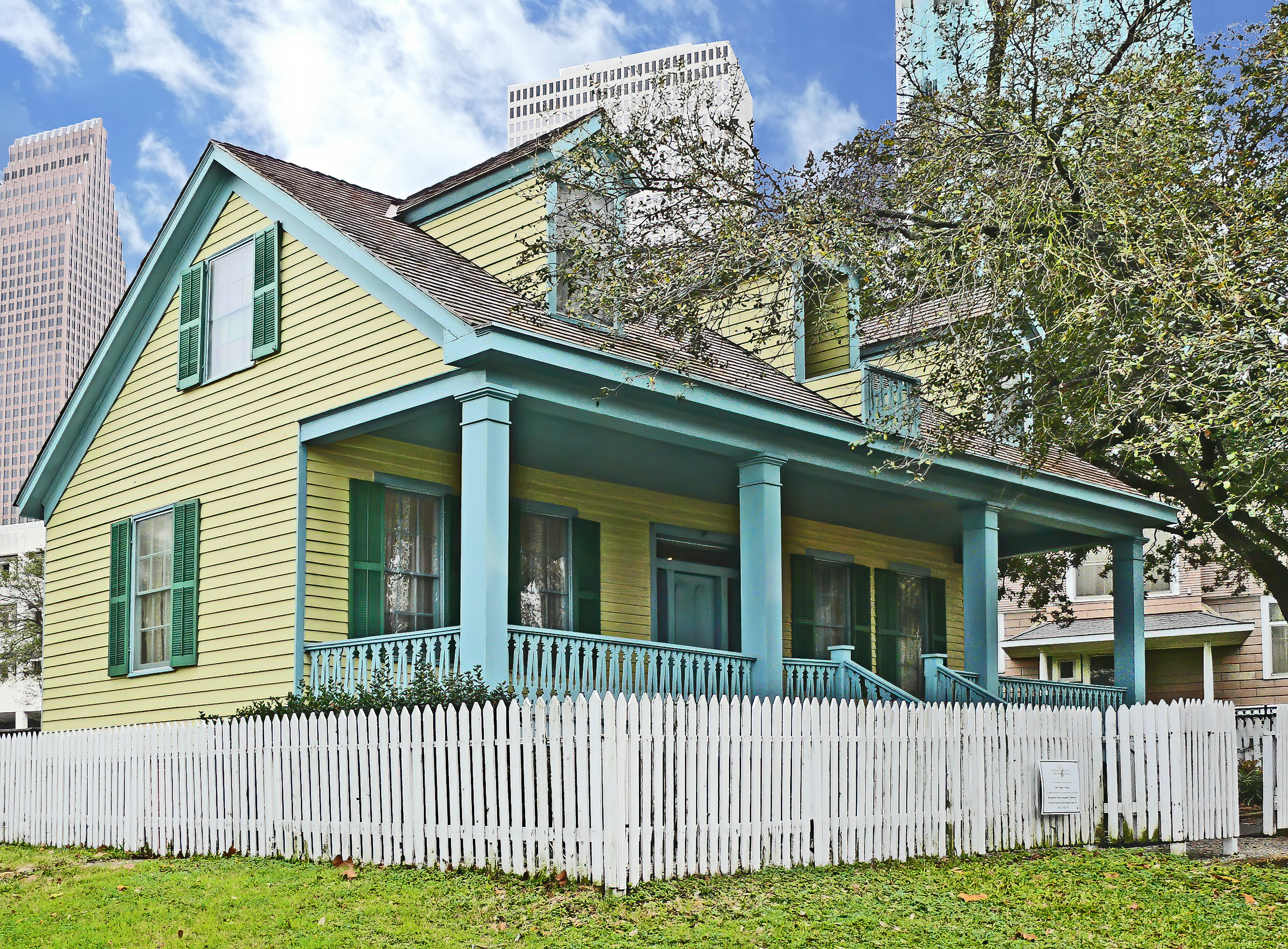 The 1868 San Felipe Cottage is an example of the vernacular architecture of Houston’s German population of the late 19th century. Originally located at 313 San Felipe Road, the structure was moved to Sam Houston Park in 1972. Primarily a repository of Texas furniture, San Felipe illustrates the cultural legacy of the German working class, one of the predominant cultural groups in Texas.